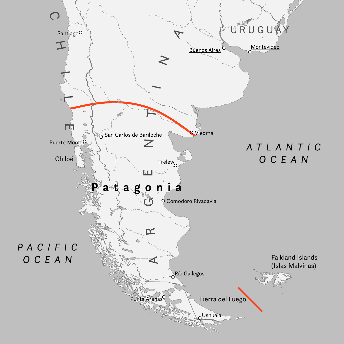 General overview map of Patagonia